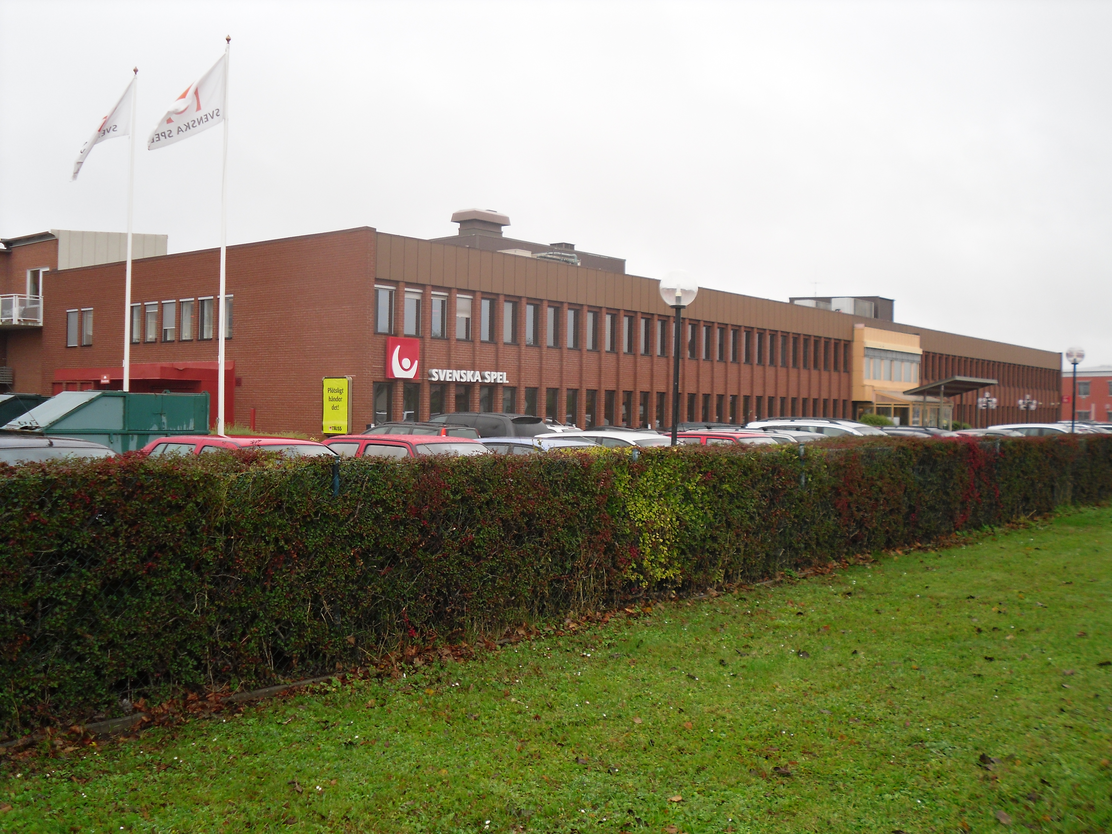 Svenska spel head office in Visby, Sweden